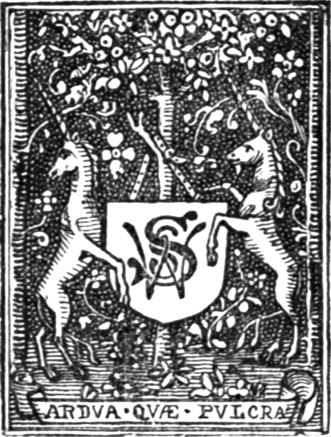 Logo of defunct UK publishing company Swan Sonnenschein (1878-1911).